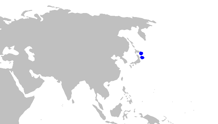 Distribution map for Apristurus fedorovi